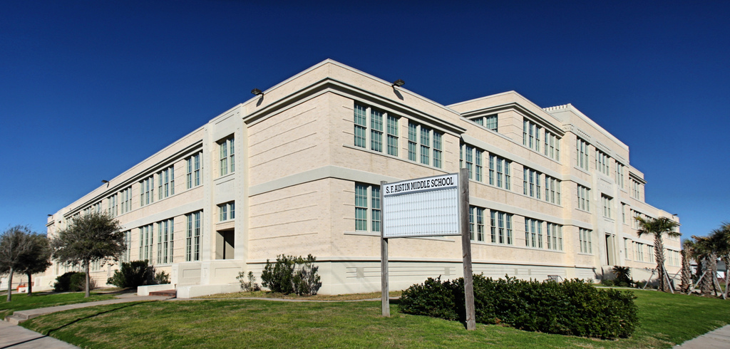 Panoramic photo of Stephen F. Austin Junior High School in Galveston, Texas, USA. It was built in 1939 as part of the Federal Emergency Works Progress Administration.